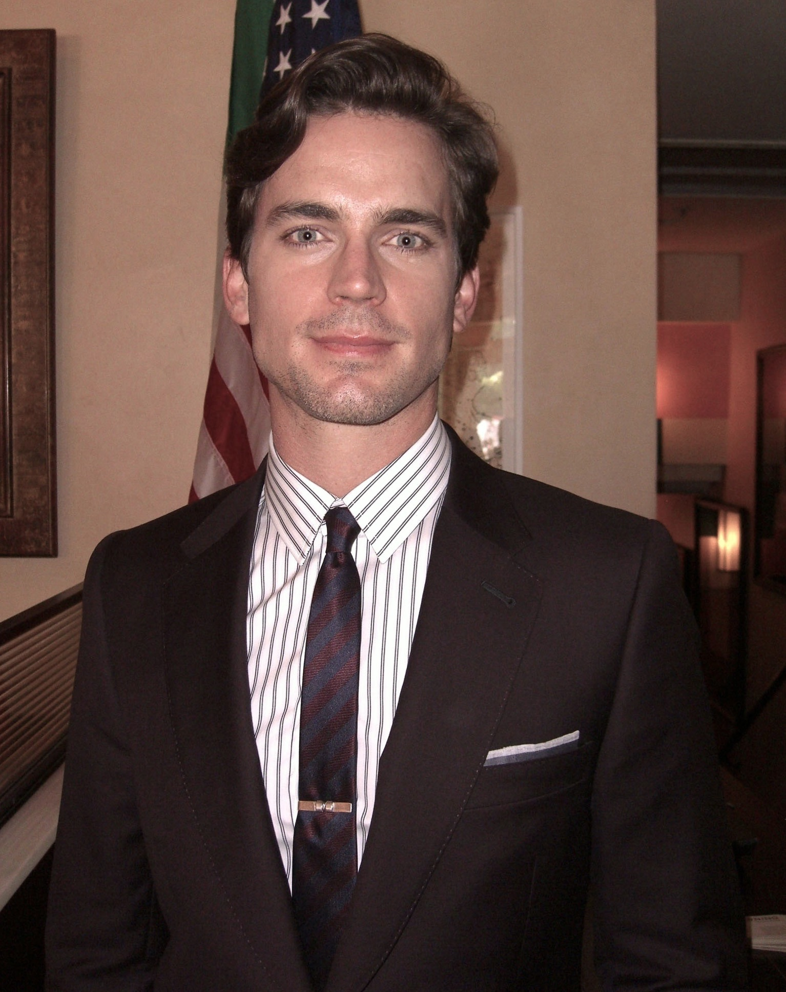 Actors Matthew Bomer during the June 7, 2011 production of "On the Fence", the ninth episode of the third season of the American TV series White Collar at 10 Downing, a restaurant in Manhattan's West Village. Photographed by Luigi Novi. This photo is not in the public domain. It may, however, be used, modified and published for any purpose, free of charge, only if the photographer is properly credited, either by linking the photograph to this page, or with an easily visible credit to the photographer placed near the photo in each instance in which it is used. (See licensing information below.) Publication of this photo without this proper attribution constitutes copyright infringement. If you have any questions, you can contact me on my Wikipedia Talk Page.